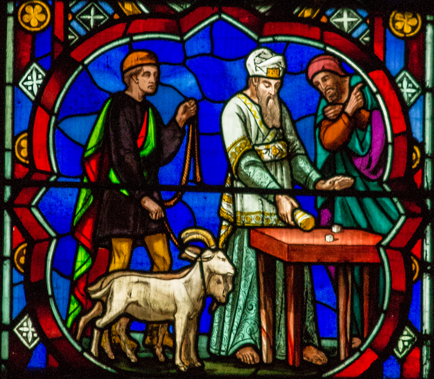 Aaron casting lots. "And Aaron shall cast lots over the two goats, one lot for the LORD and the other lot for Azazel." Leviticus 16:8 The window is by Ward & Hughes, 1855. An example of the partial use of perspective with soft drawing and powerful shadows. The use of "antique glass" meant that no shading was needed and larger pieces of glass could be used. The background is plain. Photo:J.Hannan-Briggs